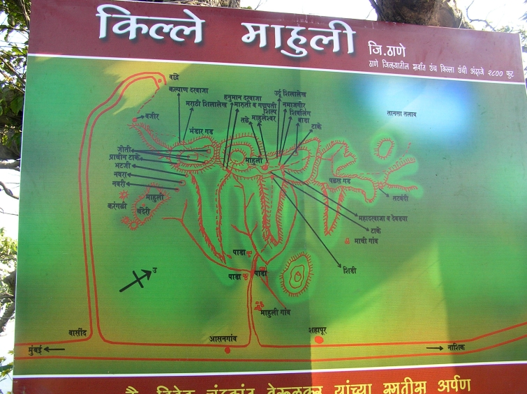 A map of the Mahuli fort and surrounding region